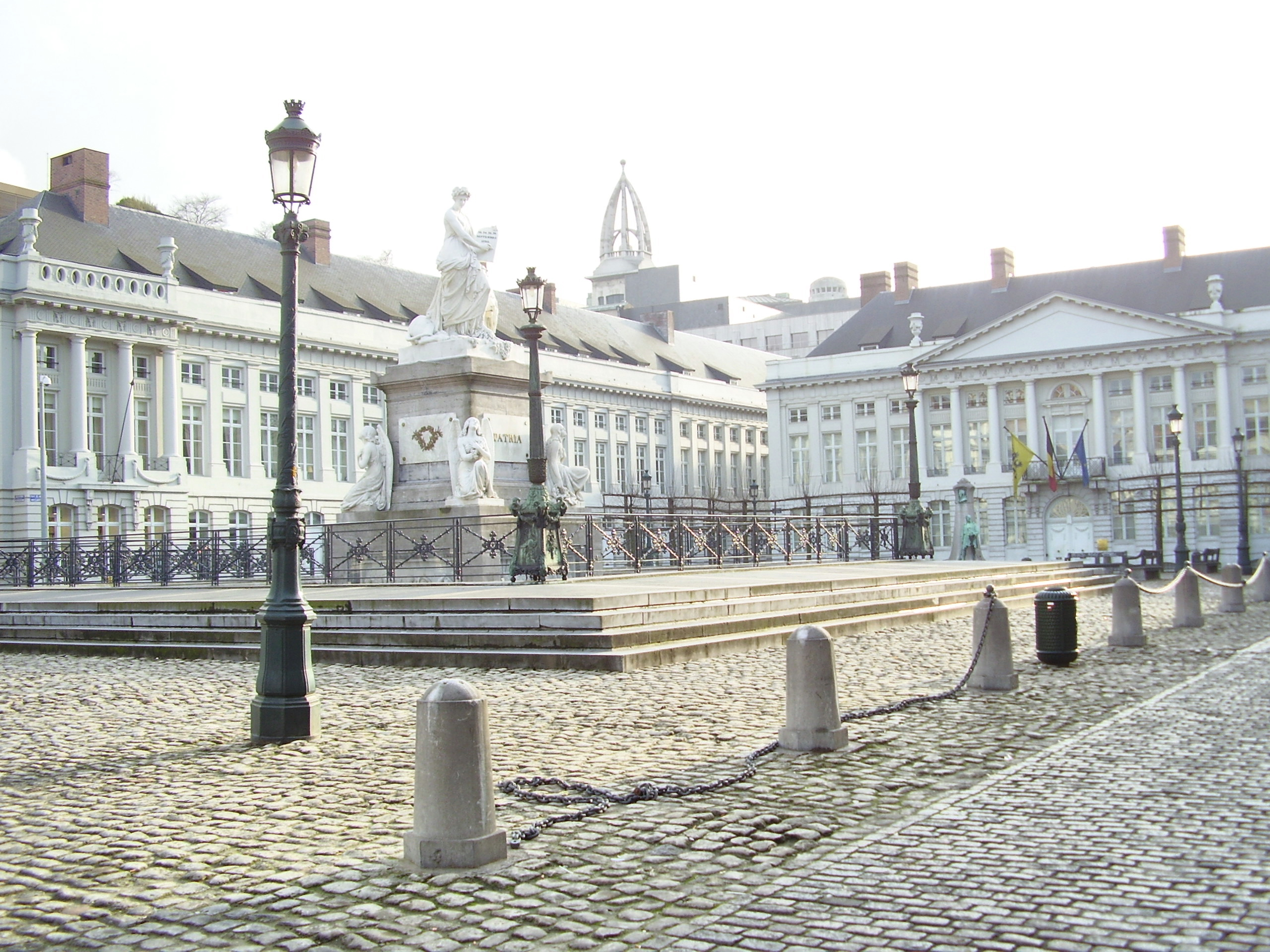 Description: Place des Martyrs, (Bruxelles) Author: User:Ben2 Date of creation: 21 février 2007 Source: Photo personnelle